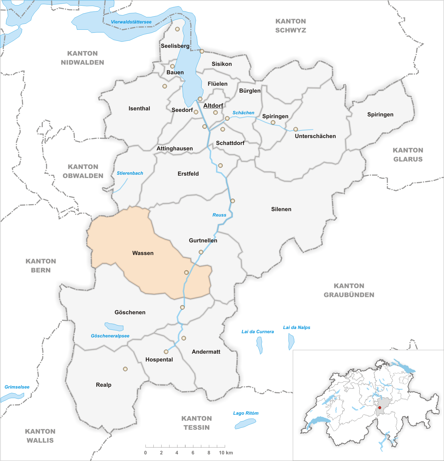 Municipality Wassen